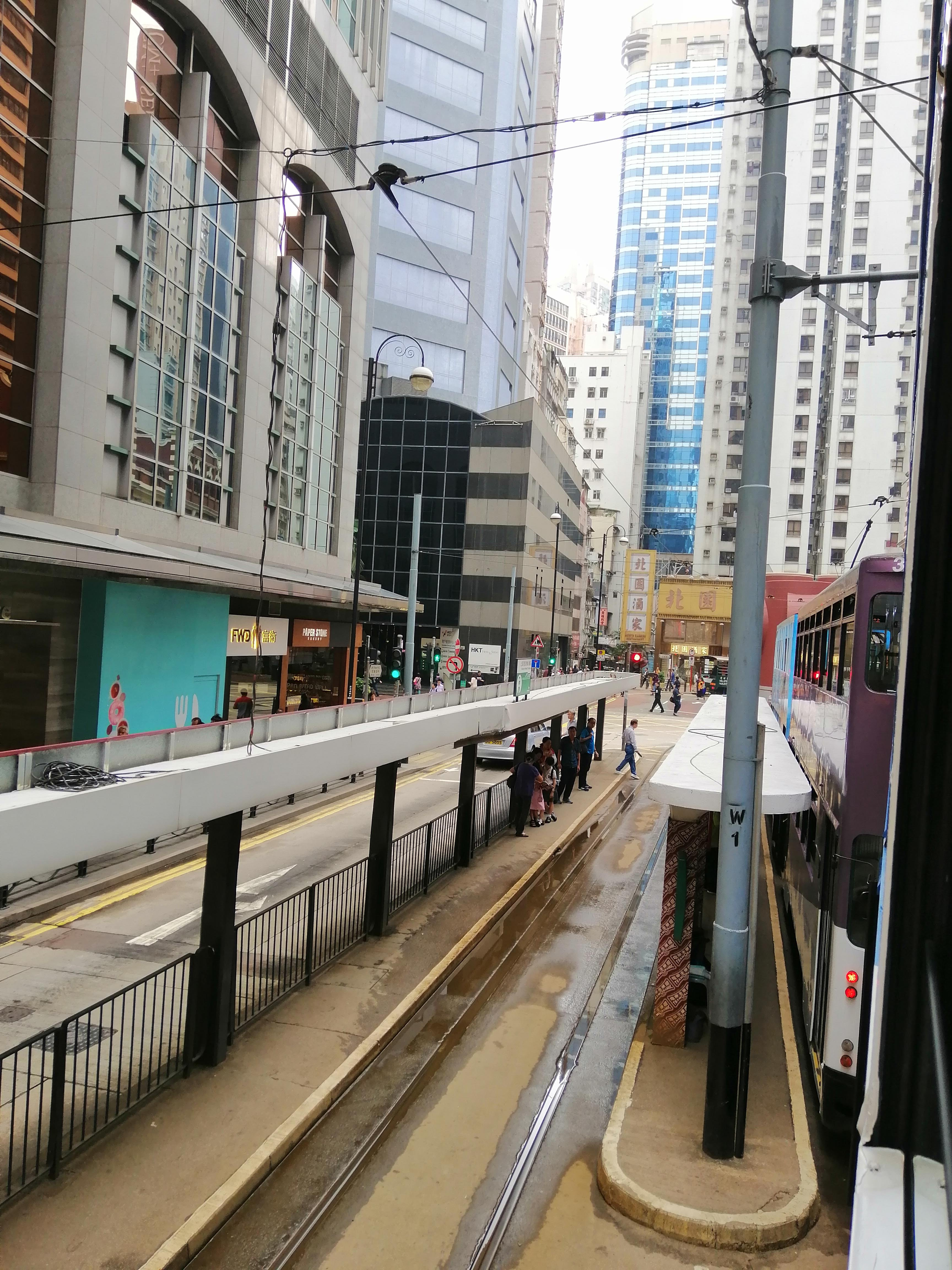 Scenery of Hong Kong Island